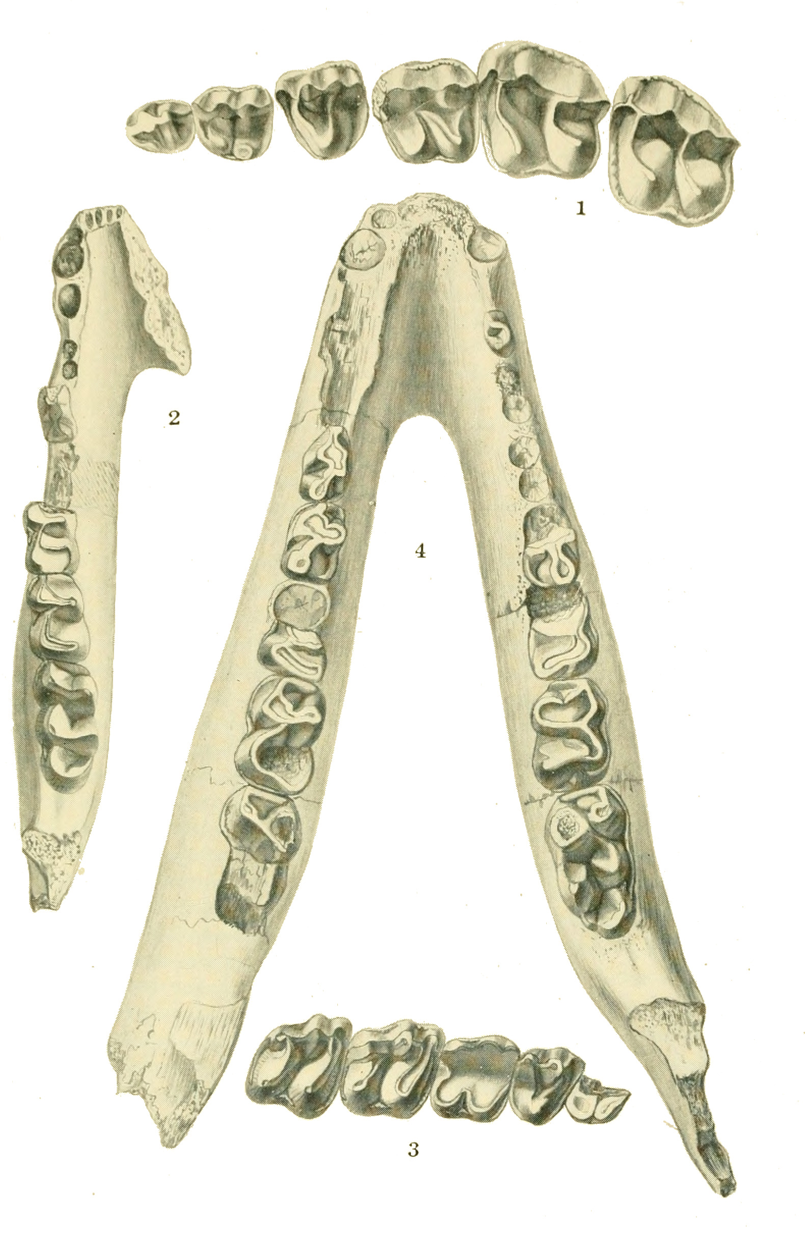 Title: Annals of the Carnegie Museum Year: 1919 (1910s) Authors: Carnegie Museum; Carnegie Museum of Natural History Subjects: Carnegie Museum; Carnegie Museum of Natural History; Natural history Publisher: [Pittsburgh : Published by authority of the Board of Trustees of the Carnegie Institute] Text Appearing Before Image: ANNALS CARNEGIE MUSEUM, Vol. XII. Plate XLIV. Text Appearing After Image: Perissodactyls from the Uinta. (For explanation see opposite page.)